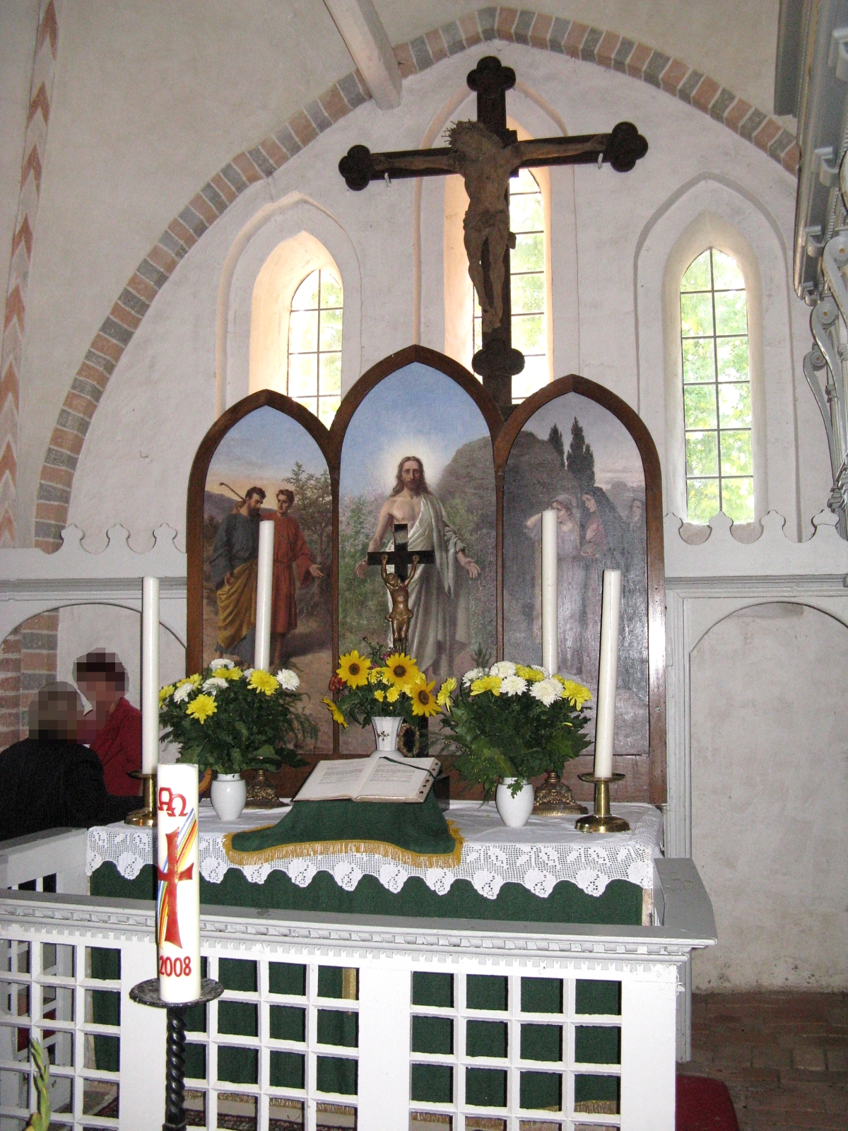 Altar in in the Church St. Abundus in Lassahn, Mecklenburg-Vorpommern, Germany